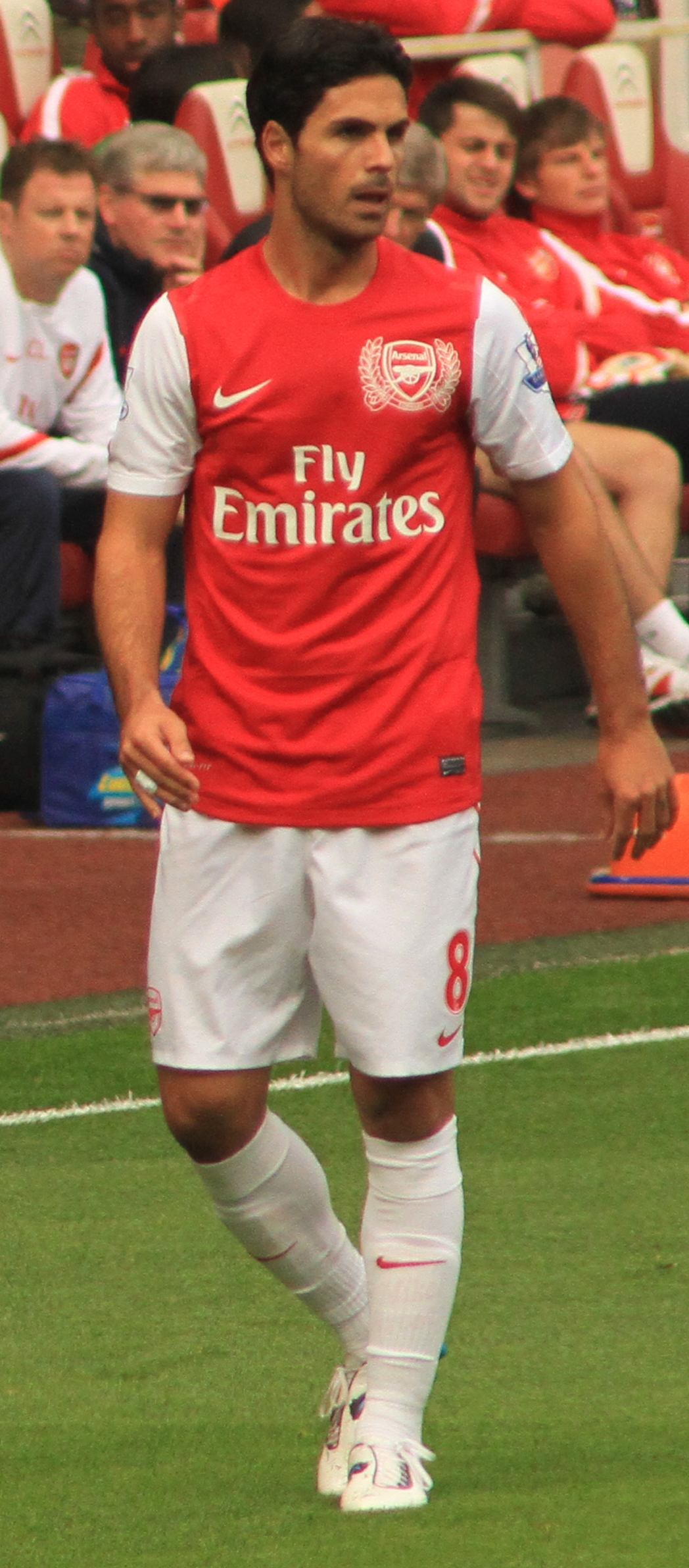 Mikel Arteta during a match between Arsenal and Sunderland